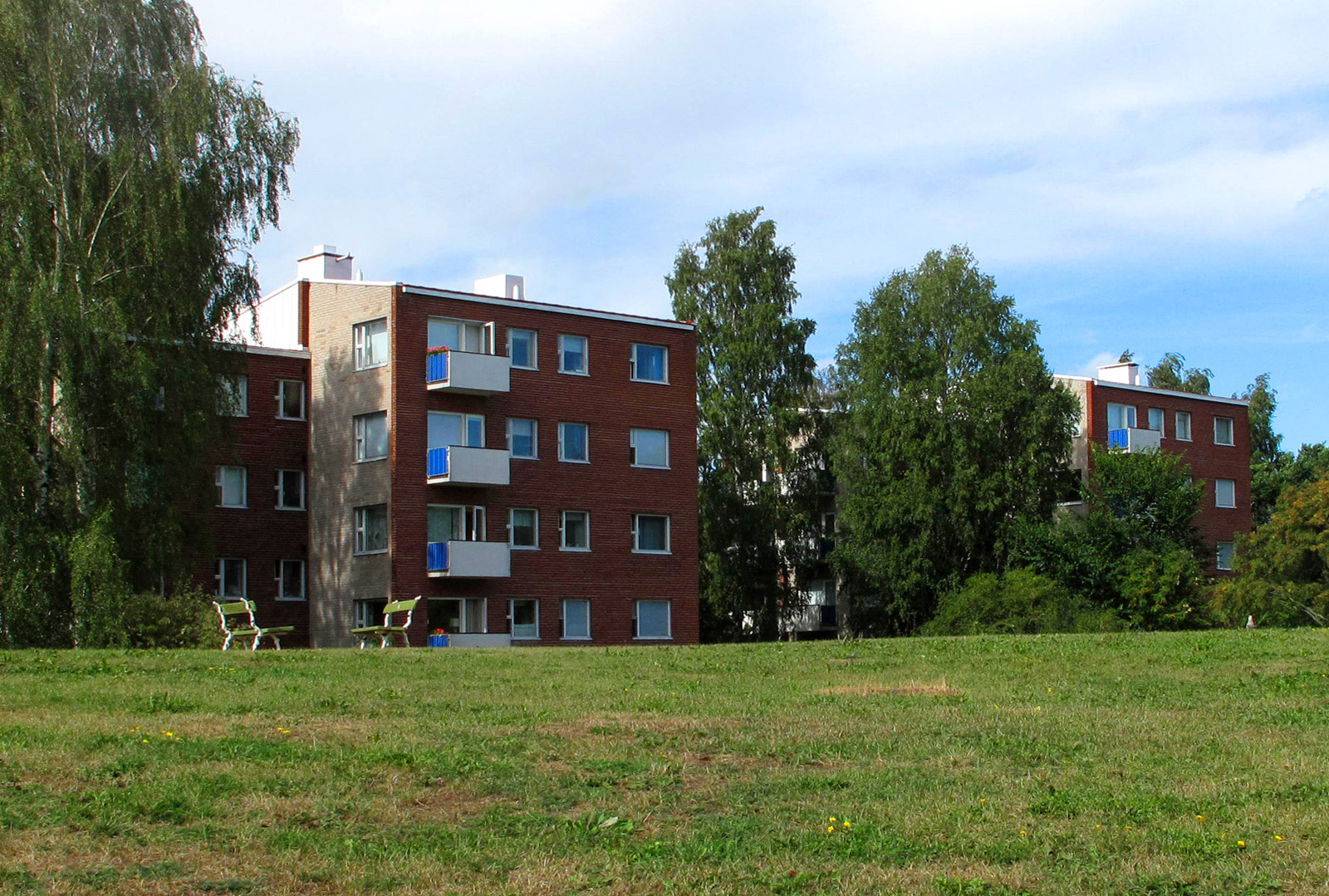 Lauttasaari, Kurt Simberg's Architecture, Haahkatie 2-4, Helsinki